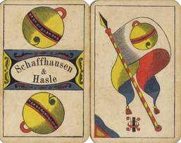 Early "single image" form of the Swiss German playing card deck, two cards of the Schellen suit, Schellen-As, Schellen-Banner